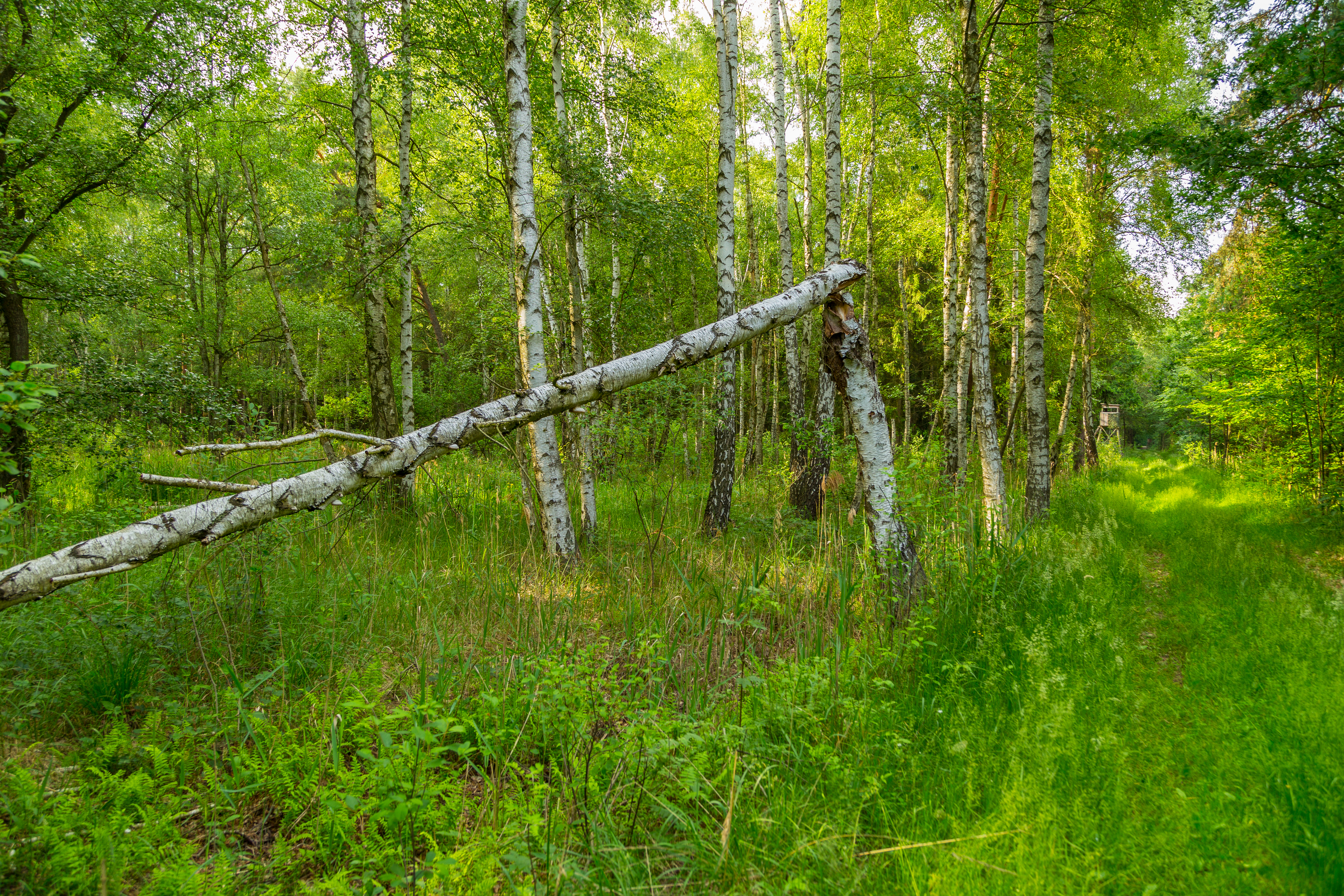 At the nature reserve Kockot (Naturschutzgebiet Kockot) near Kuschkow, district of Märkische Heide, Landkreis Dahme-Spreewald, Brandenburg, Germany.